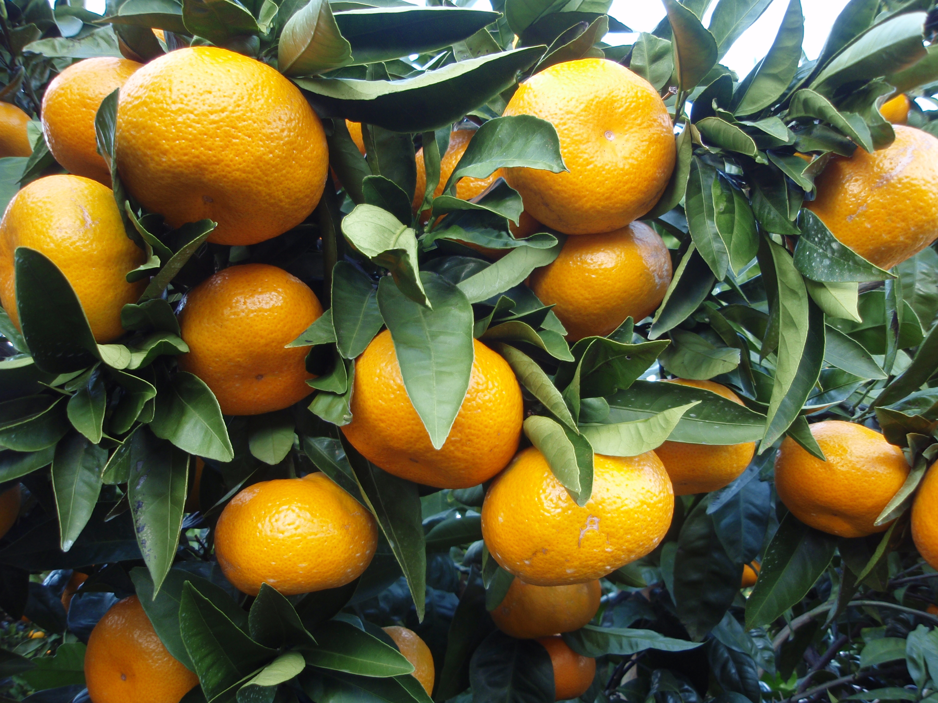 Citrus unshiu from Shizuoka Prefecture, Japan.